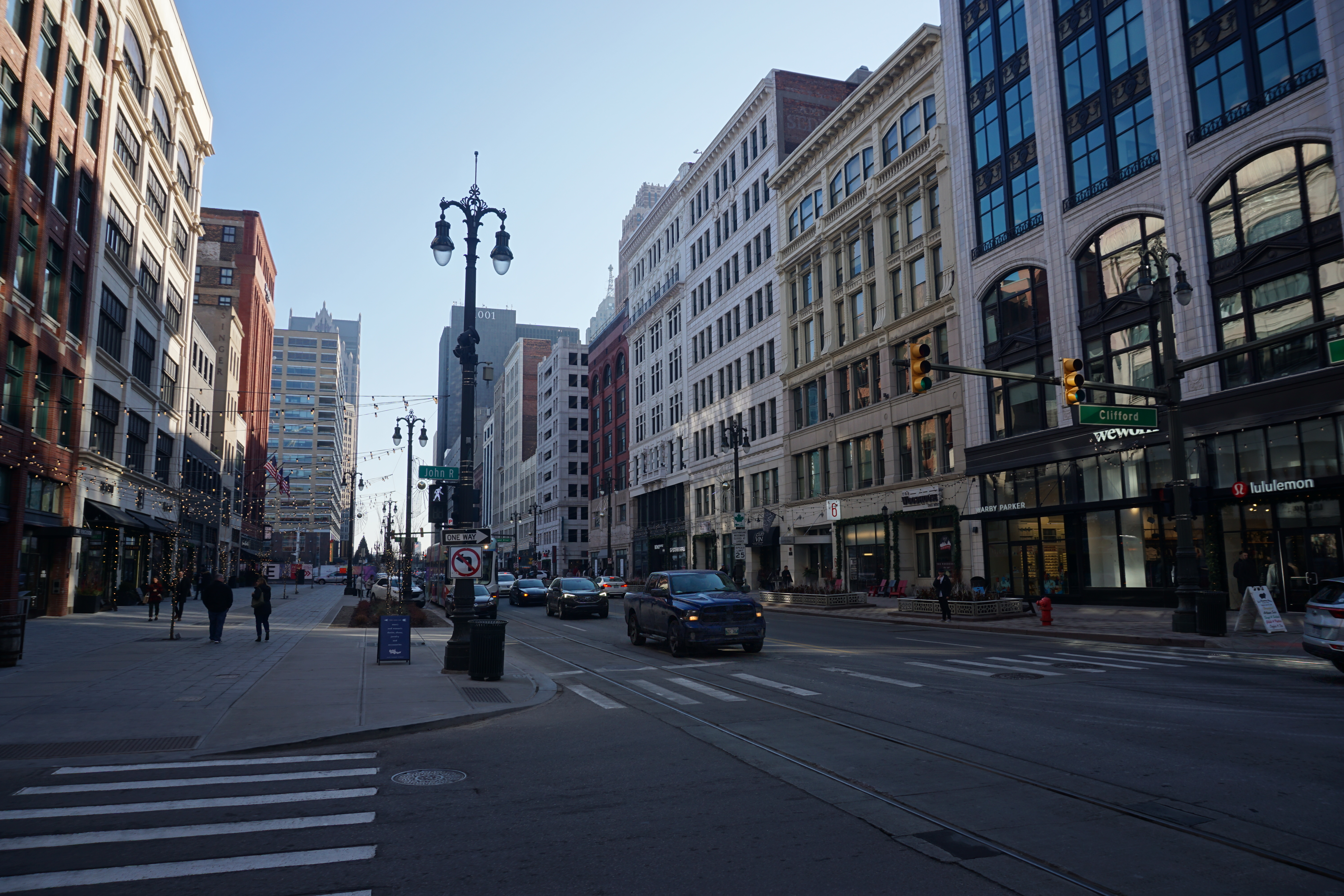 Woodward Avenue in Detroit, Michigan (United States).